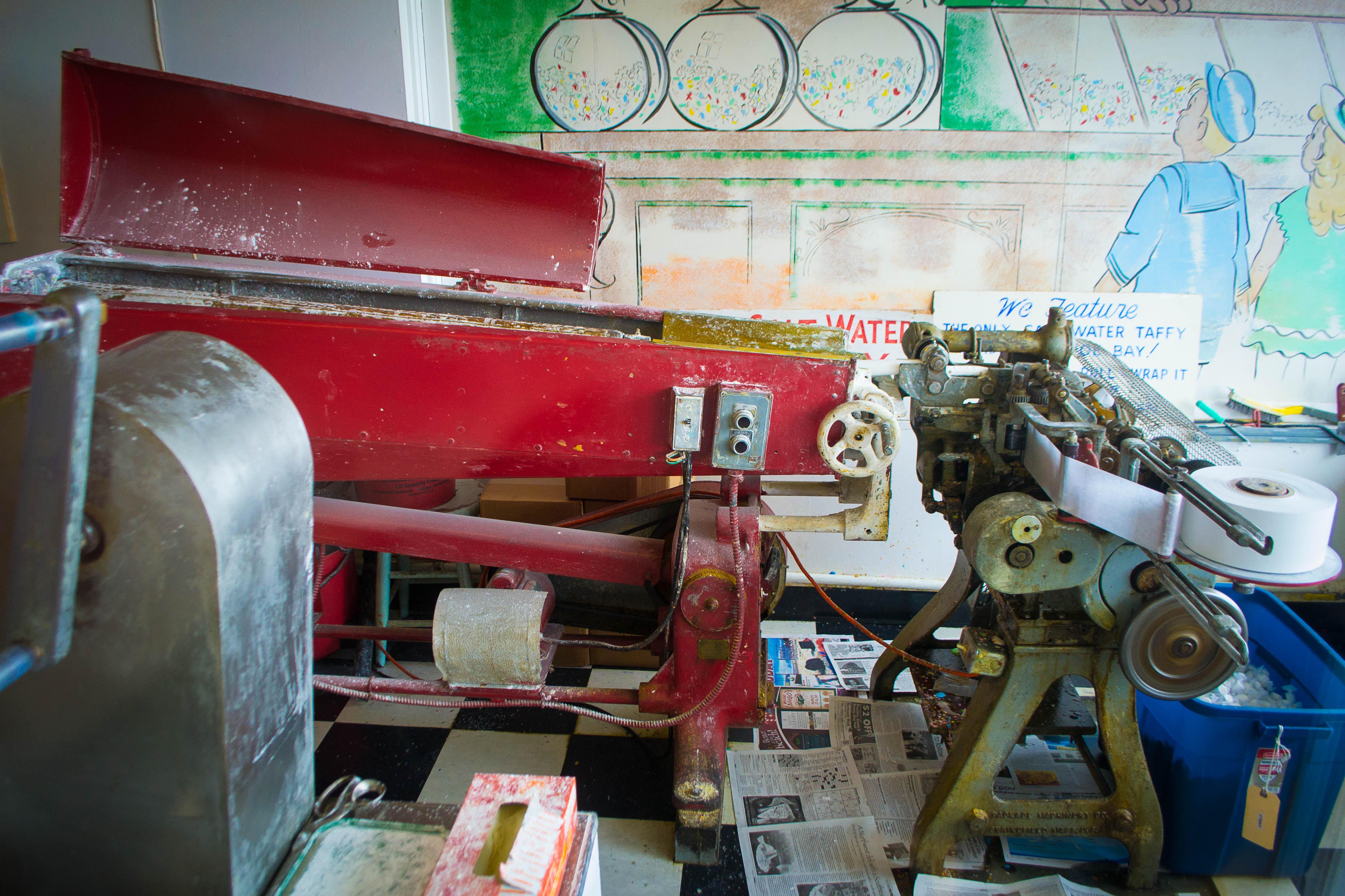 Salt Water Taffy Stretching and Wrapping Machines